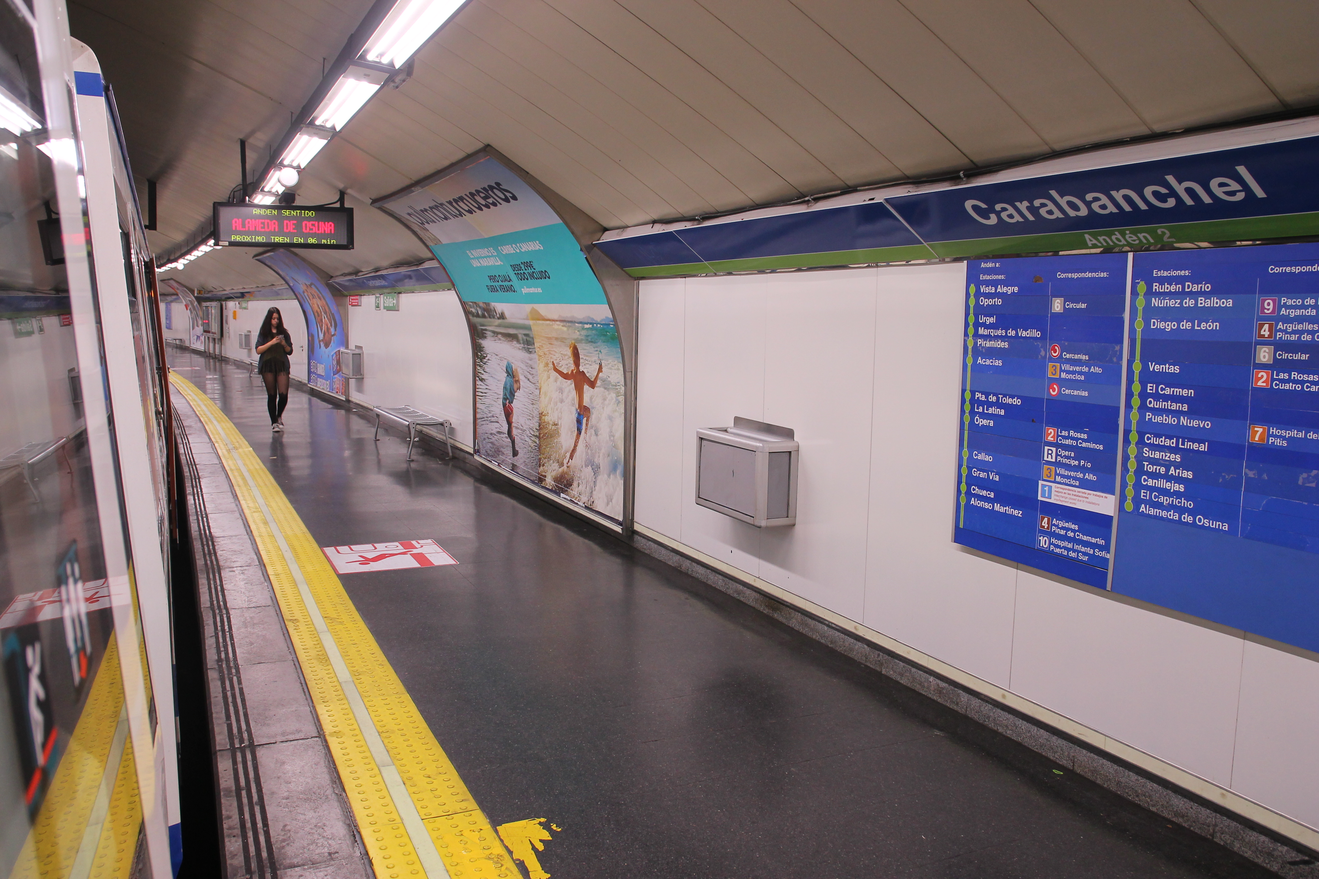 Estación de Carabanchel